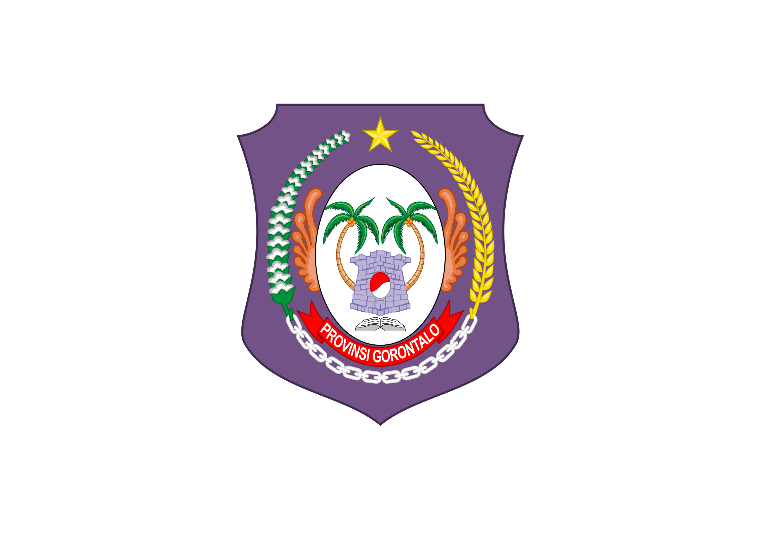 Flag of Gorontalo, See legal regulation about the flag.